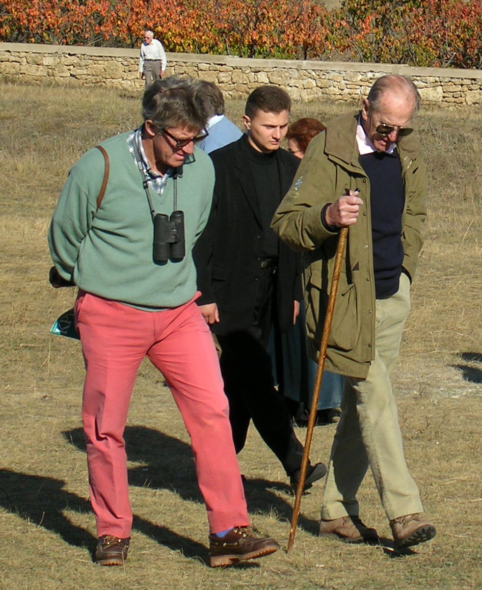 Major General Arthur Denaro and Prince Phillip at the Alma battlefield in the Crimea during the celebrations of the 150th Charge of the Light Brigade - October 2004.